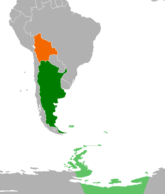 I made this map out of a licence free blank map of the world.